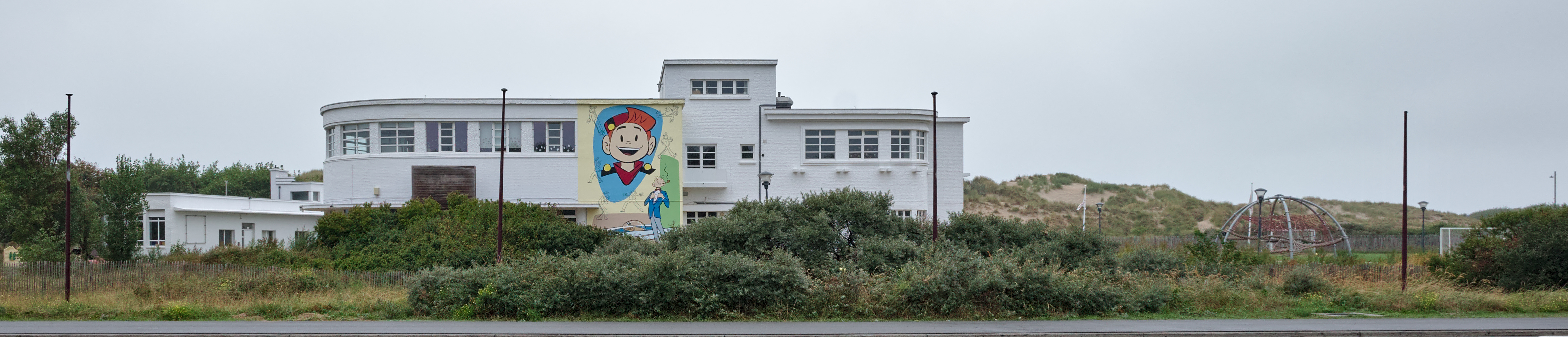 Centrum De Calidris in Middelkerke, Belgium: The building functions as a multifunctional recreation site which hosts several activities such as classes and summer camps. This photo of immovable heritage has been taken in the Flemish Region